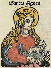 Illustration from the Nuremberg Chronicle